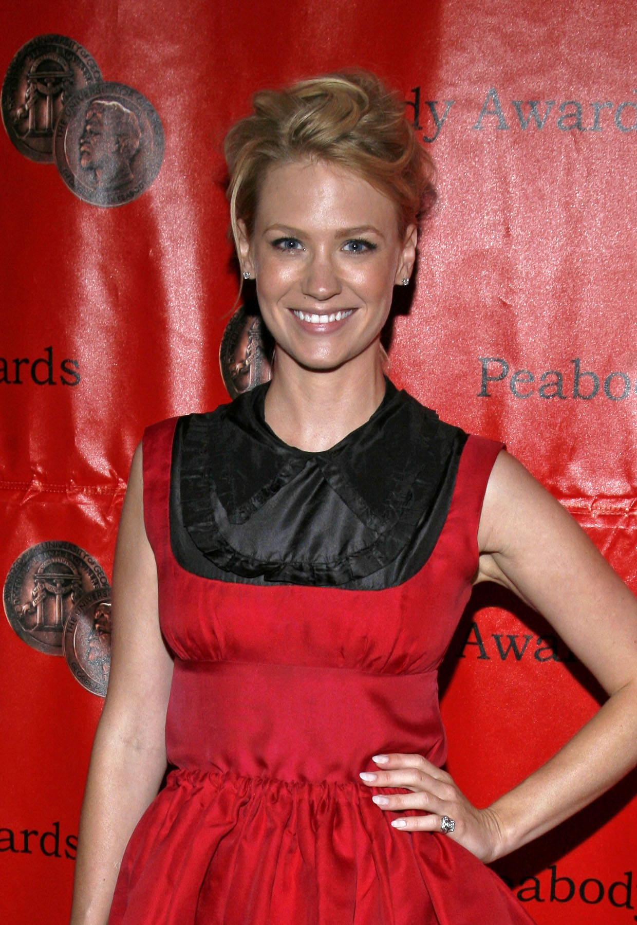 January Jones at 67th Annual Peabody Awards Luncheon, Waldorf Astoria Hotel, New York City (New York, United States), June 16, 2008.